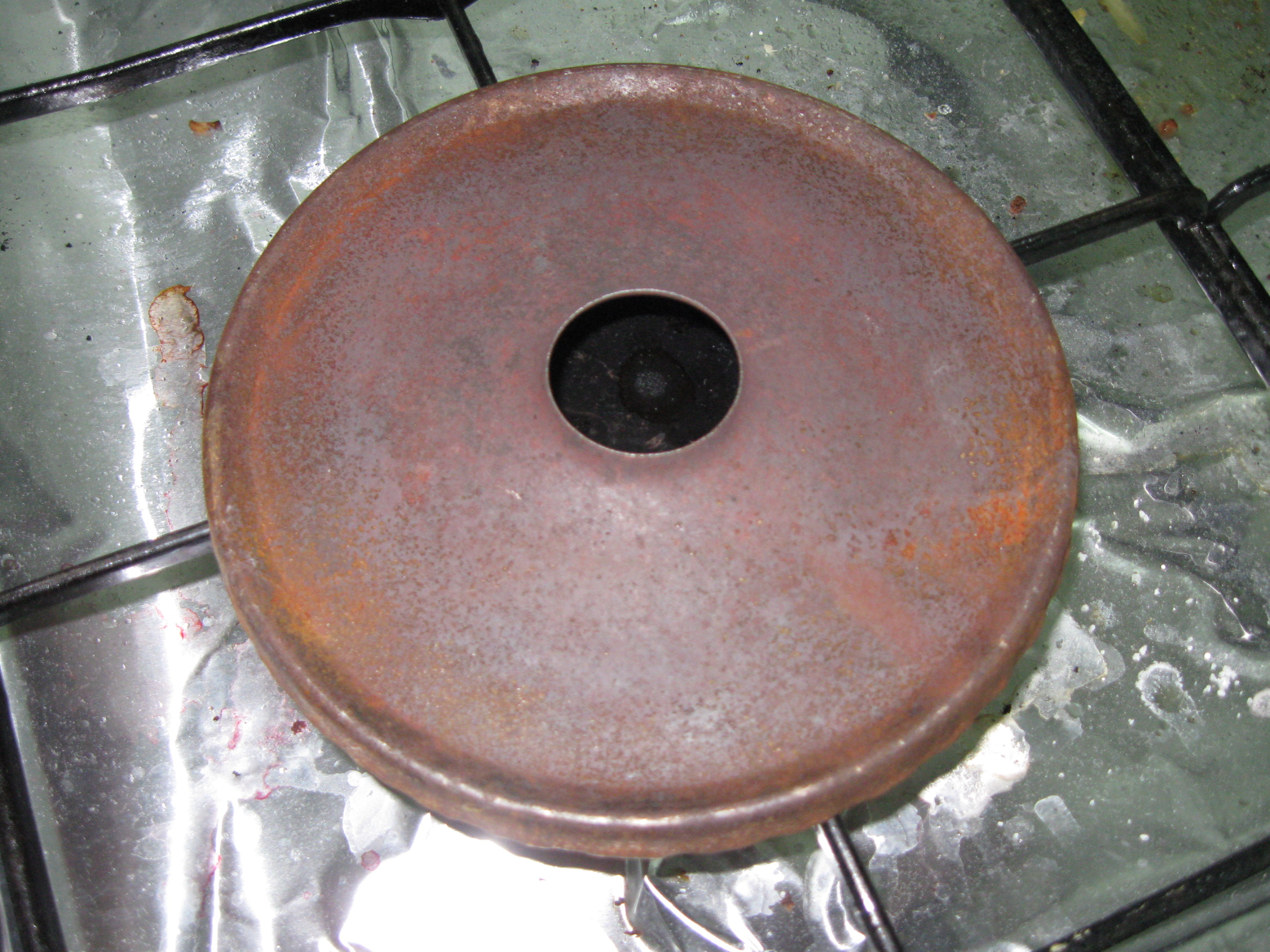 Metal disc that is placed between the Wonder Pot and the flame to disperse heat.